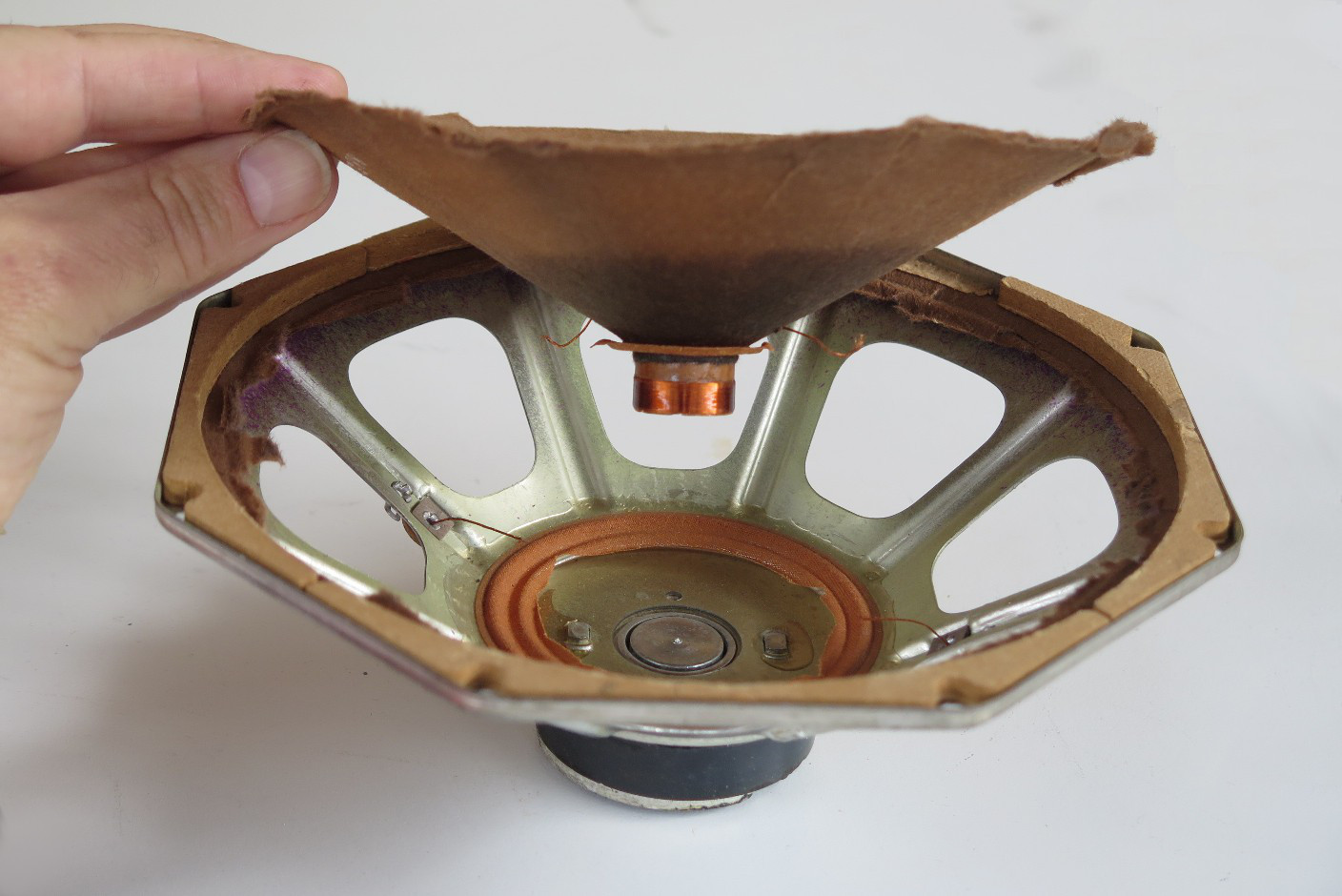 Loudspeaker deassembled with magnet, voicecoil and diaphragm